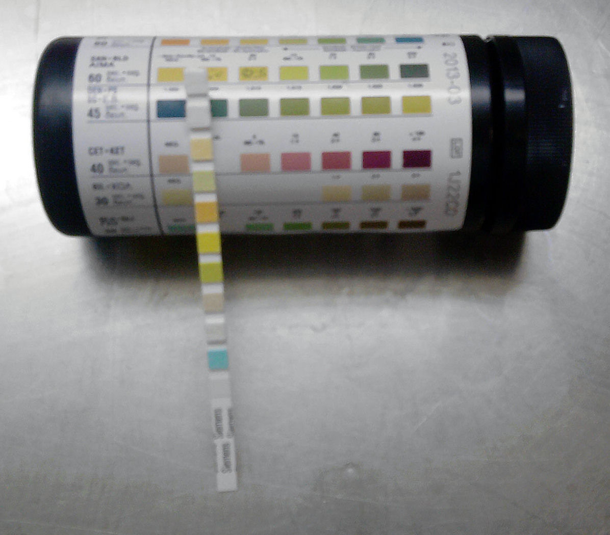 A urine test strip photo. (Multistix - Siemens Medical Solutions Diagnostics)